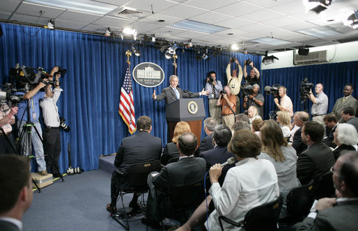 George W. Bush gestures as he thanks the White House media for its hospitality at the start of a news conference in the temporary press briefing room at the White House Conference Center.